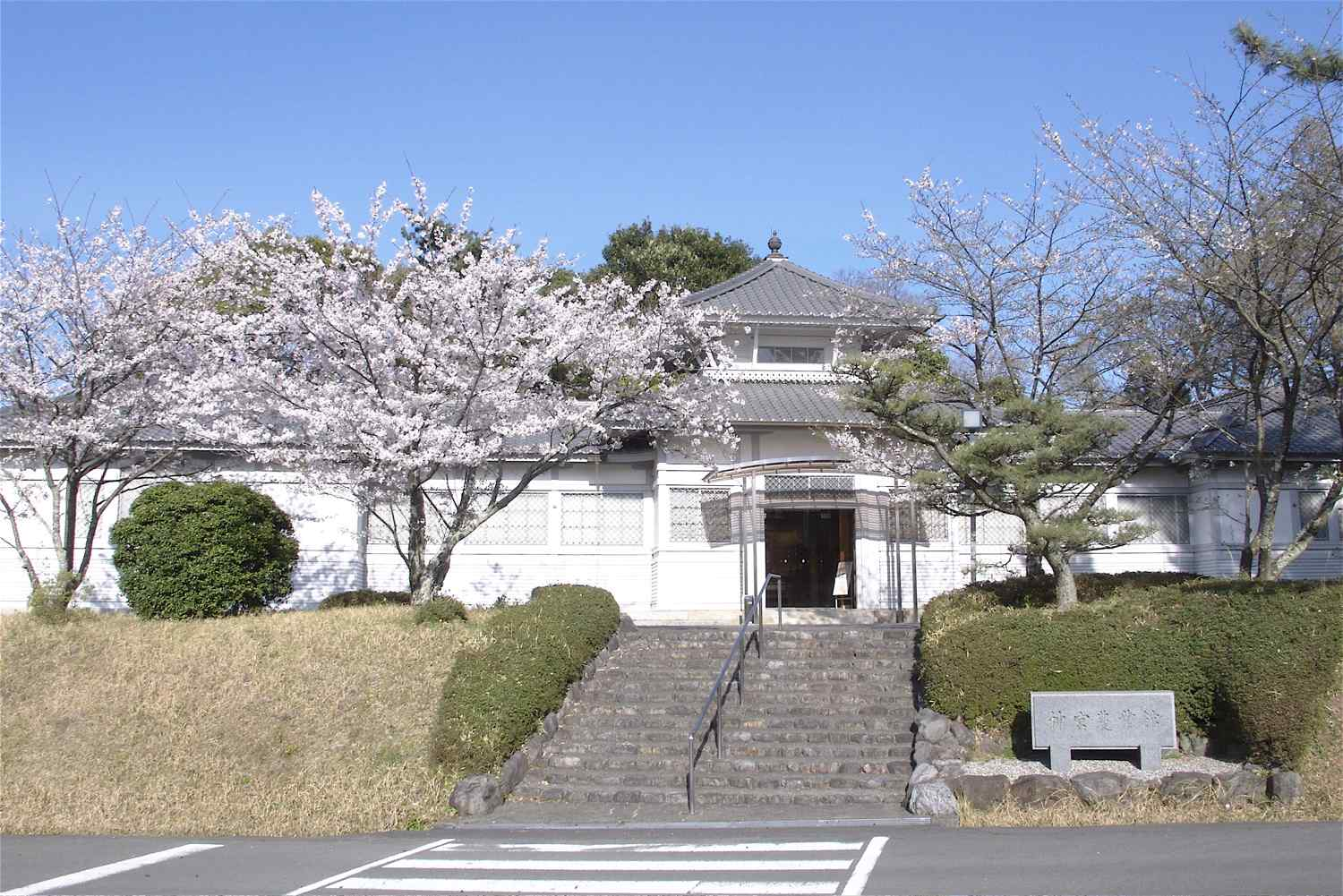 The Jingu Museum of Agriculture (Jingu Nogyokan) at Ise city Mie Prf. Japan.